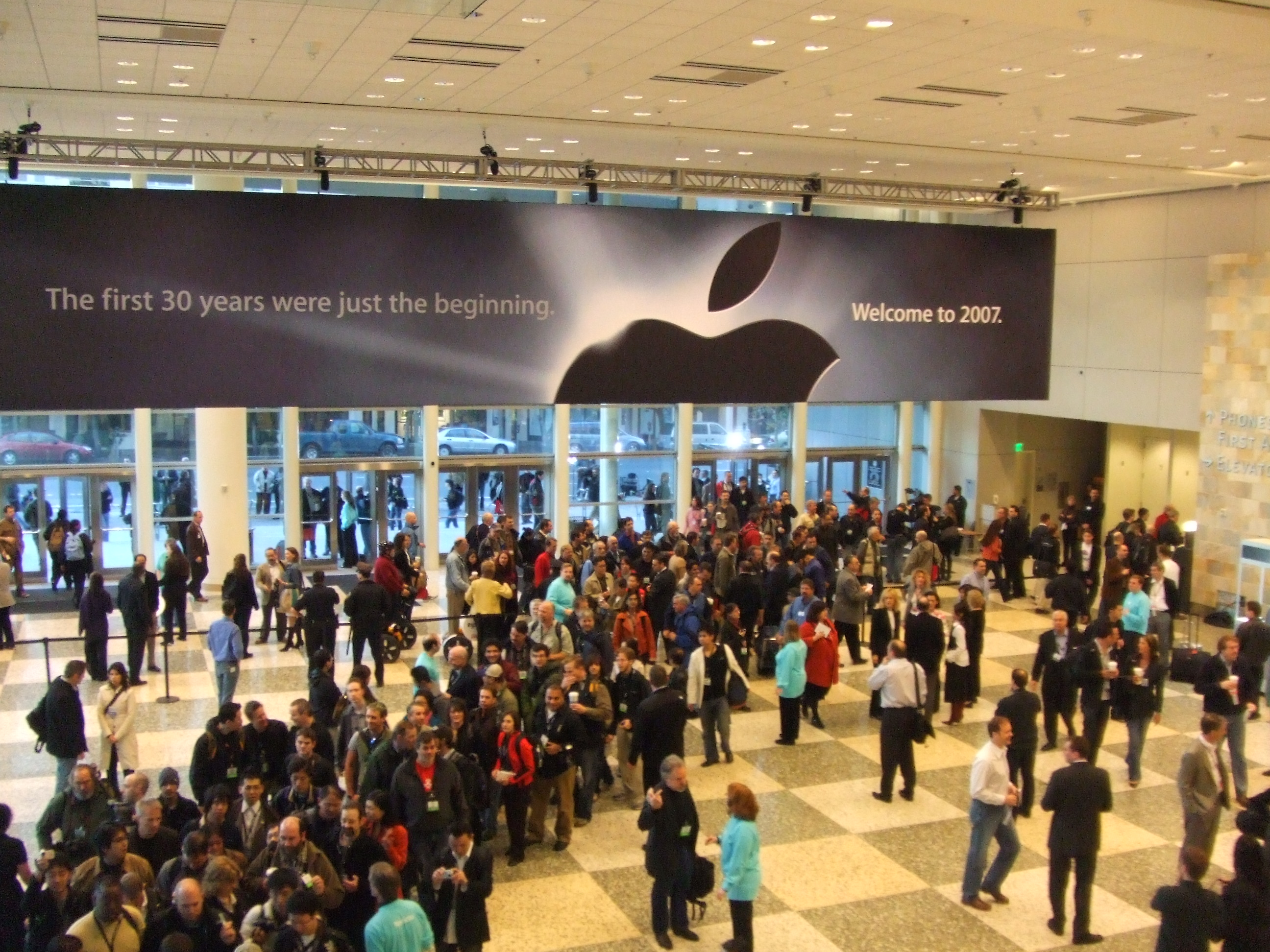 Macworld San Francisco, Moscone Center, Banner "Welcome to 2007"